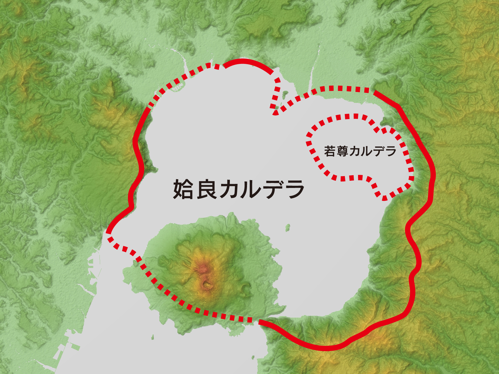 Aira Caldera in Kagoshima Prefecture, Kyushu, Japan.